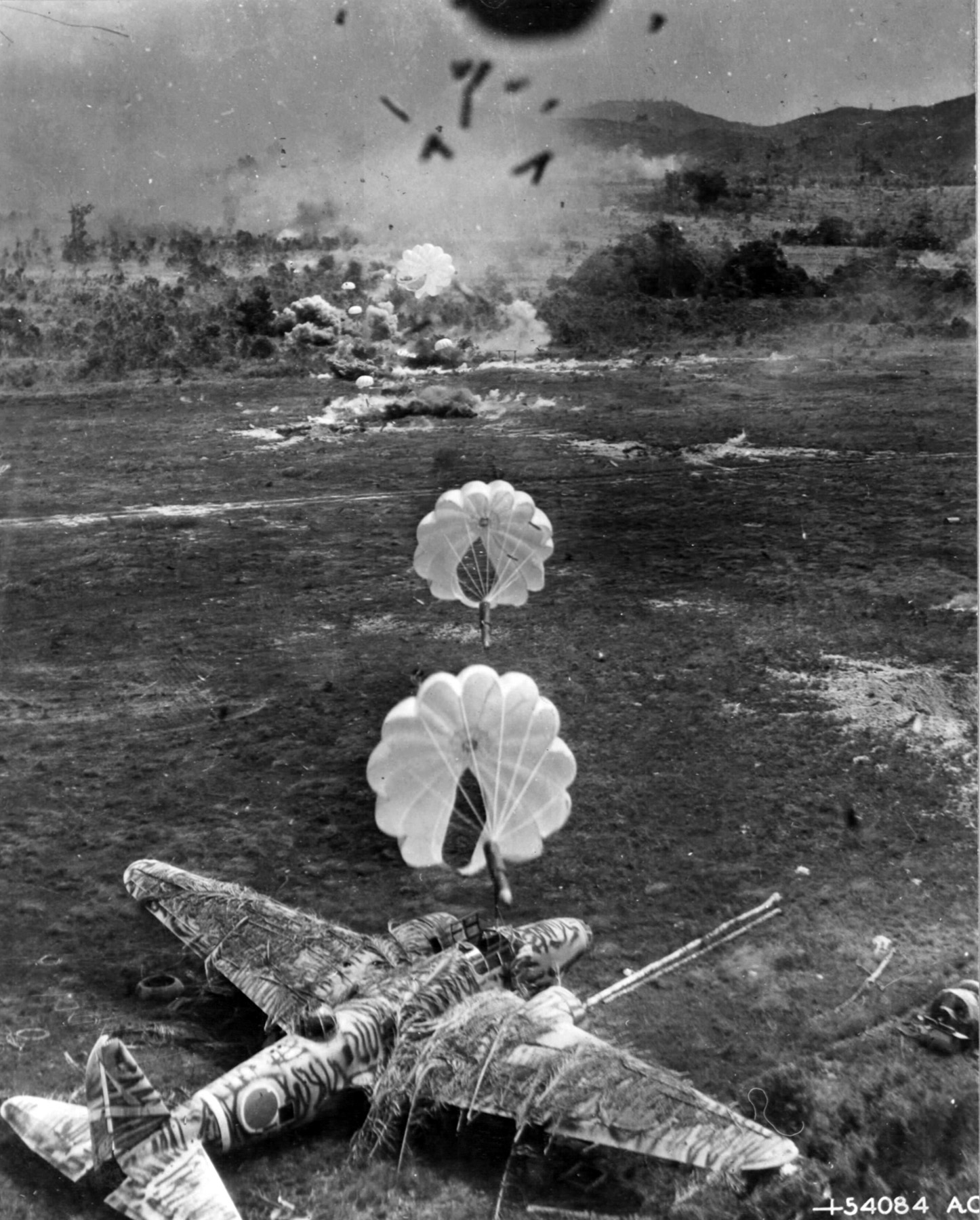 A camouflaged Japanese Mitsubishi Ki-21-IIb bomber seconds before its destruction by parafrag bombs dropped by a U.S. Army Air Force Douglas A-20 Havoc.